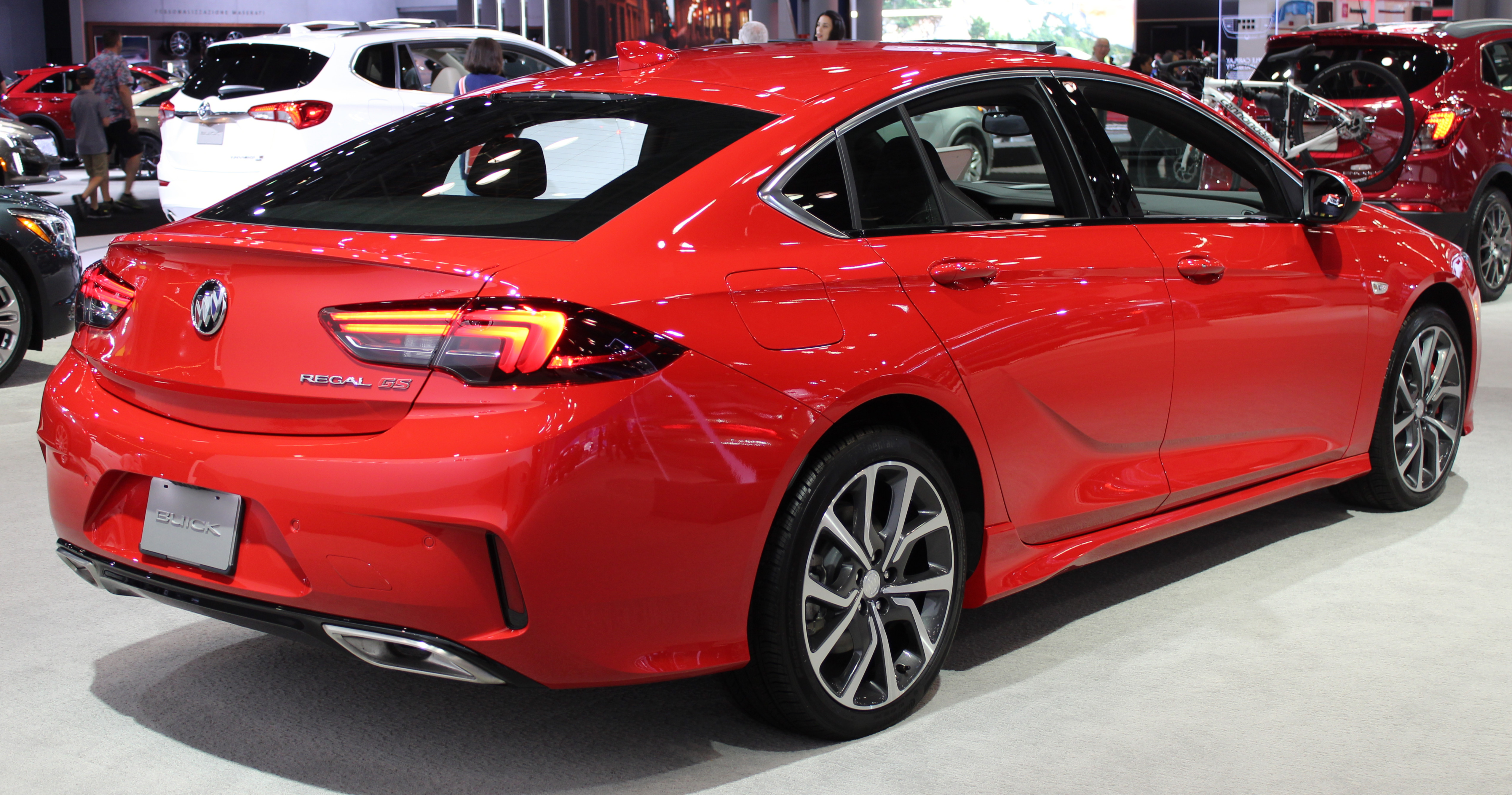 A 2019 Buick Regal GS sedan photographed during the 2019 New York International Auto Show, in Hudson Yards, Manhattan, NYC